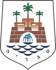 Coat of arms of Tiberias, Israel Tiberias, Israel